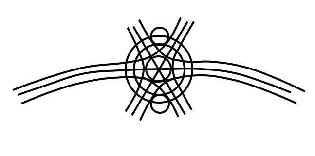 粵語: Wynn Palace Musical Fountain - Layout Of Nozzle(New Version)